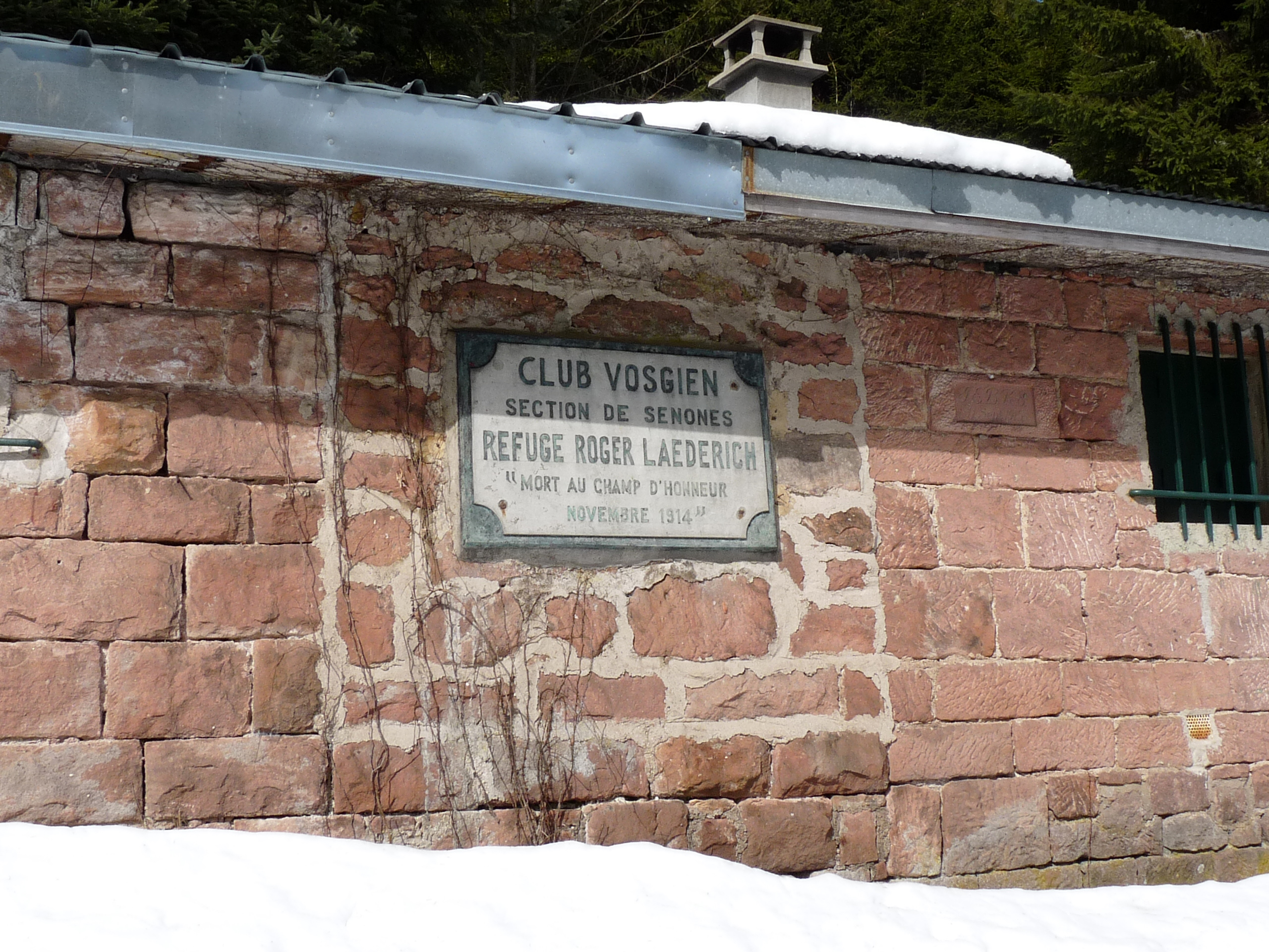 Club vosgien refuge near Moussey (Vosges)